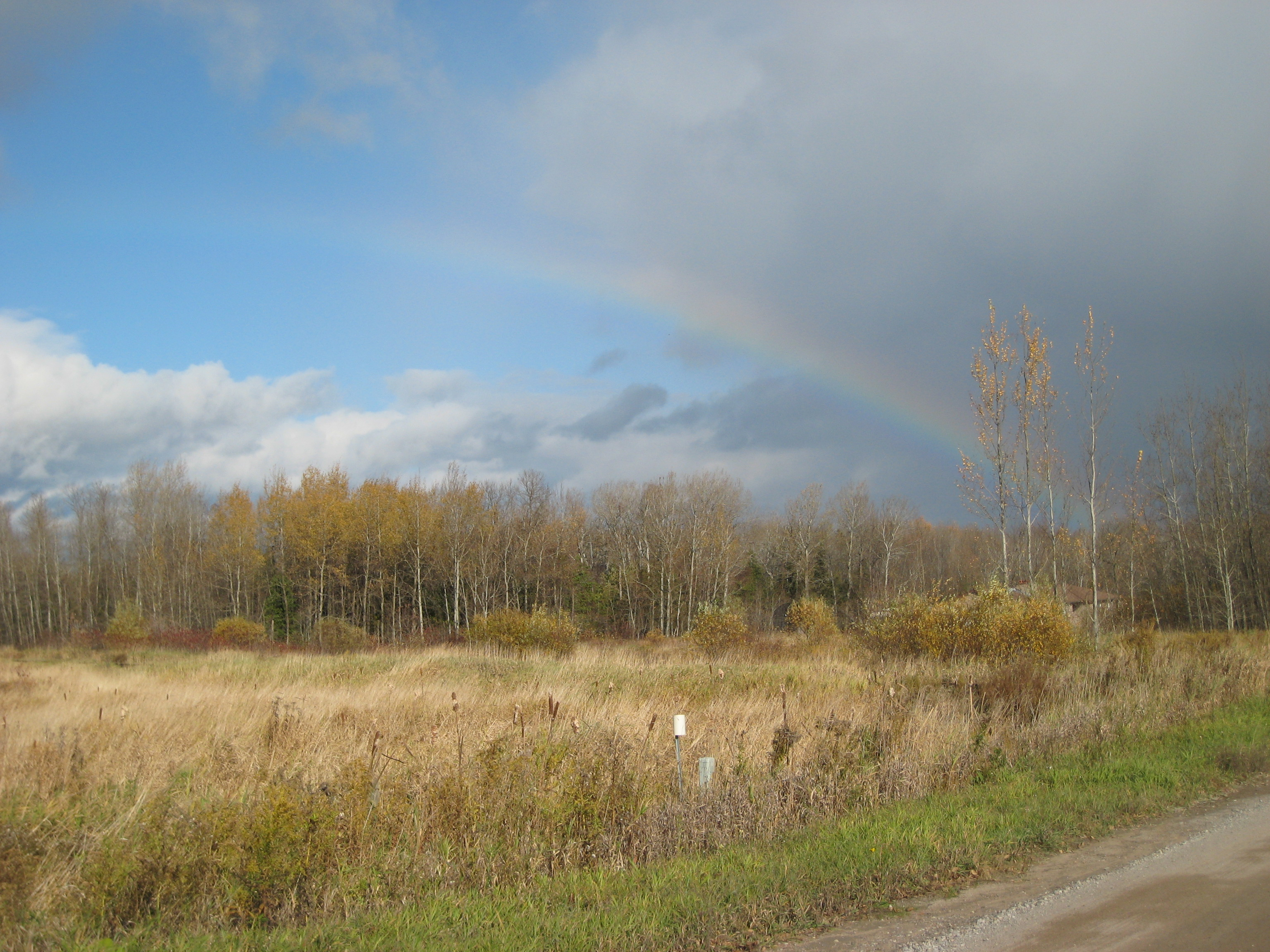 Rainbow over a field at the Holland Marsh, in York Region, Ontario, Canada.